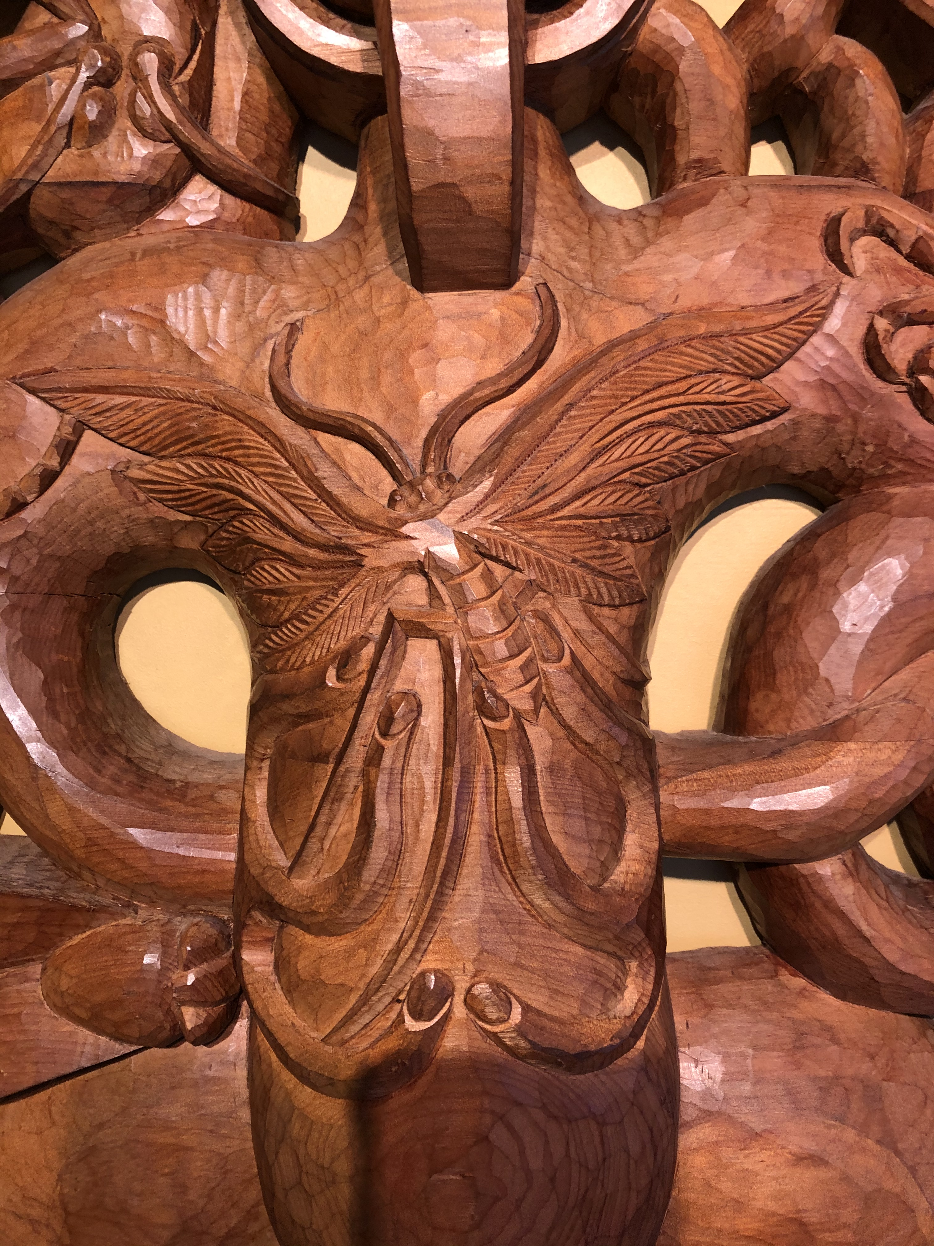 New Zealand Plume Moth carved by Denis Conway onto a Maori pare, on display at the New Zealand Arthropod Collection at Landcare Research, Auckland.